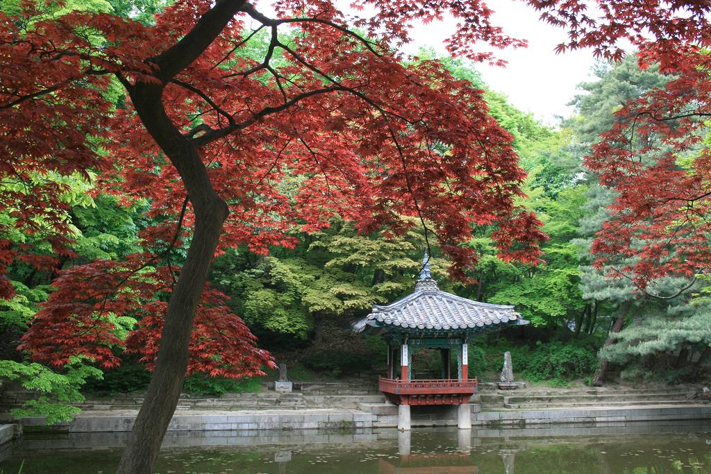 Aeryeonjeong, Changdeokgung Palace Garden, Seoul